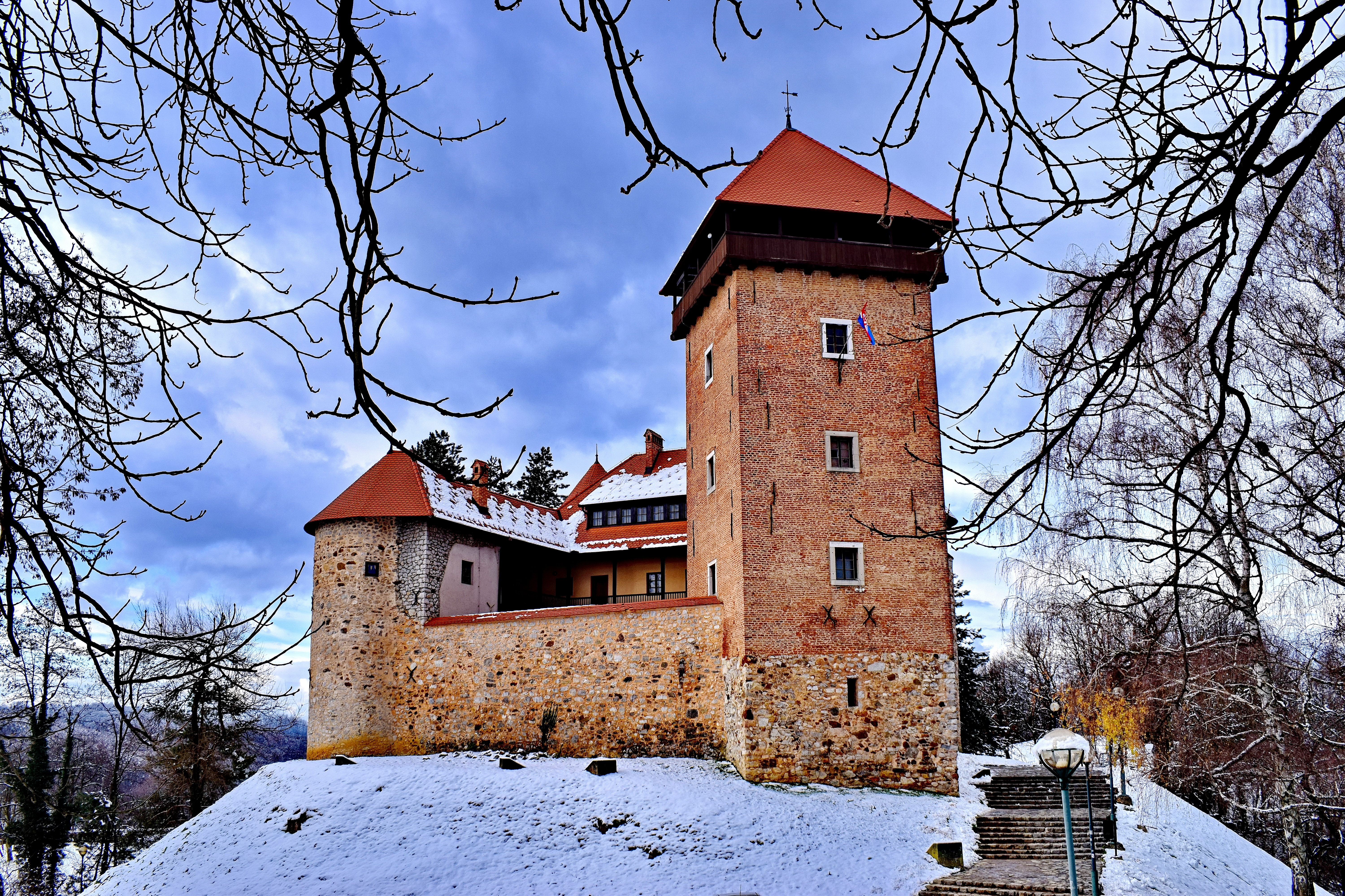 Old town Dubovac - Karlovac